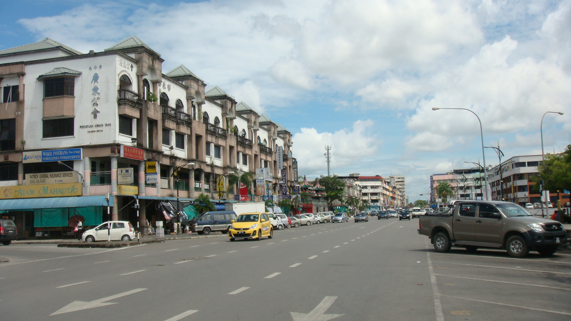 The streetscape along Jalan Abang Galau in Bintulu near the Tamu Bintulu market.